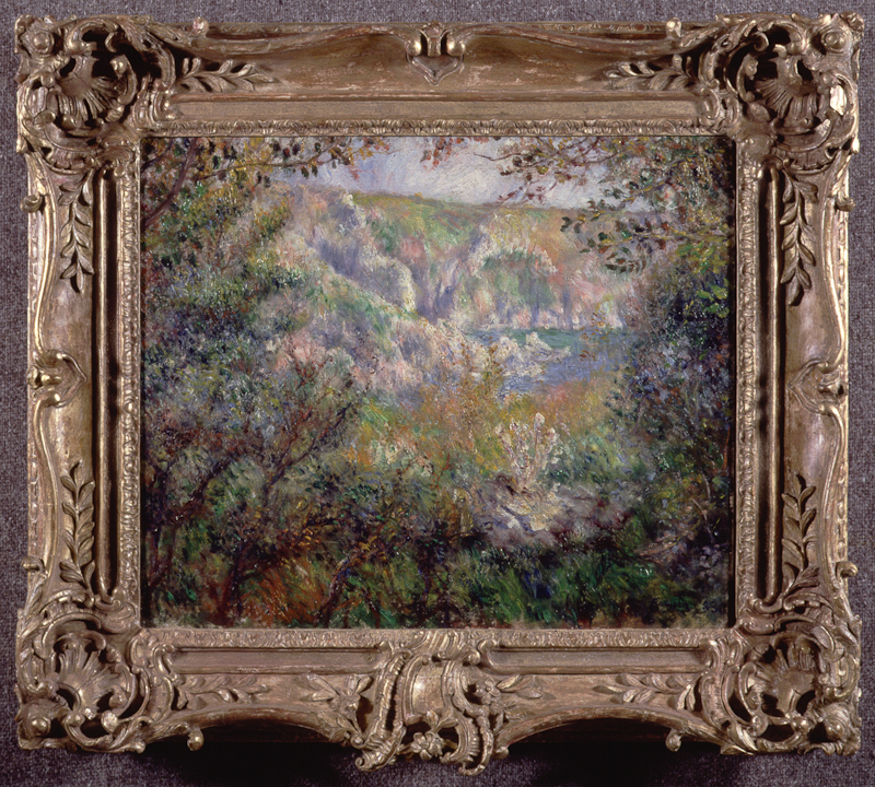 Baie du Moulin Huet à travers les arbres (Moulin Huet Bay through the trees), oil on canvas, by Pierre Auguste Renoir. Loaned for the 1988 Exhibition Renoir in Guernsey from a 'Private Collection, Switzerland'.